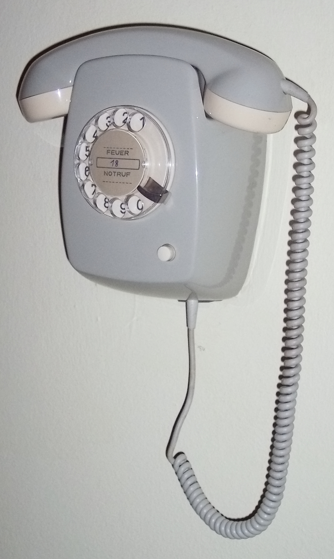 German telephone of the 61-series for wall mounting. It is named FeWAp (Wall-mounting-telephone) 614-1 and its connectet to an private branch exchange (PBX). This Telephone has a button at its front side which is necessary for functions of the PBX.